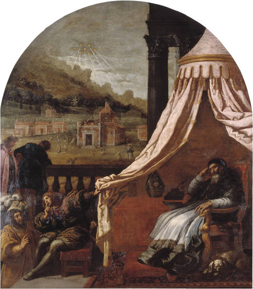 The Dream of Hugo, Bishop of Grenoblelabel QS:Lde,"Der Traum des Hugo, Bischof von Grenoble"label QS:Len,"The Dream of Hugo, Bishop of Grenoble"label QS:Les,"La visión de San Hugo, Obispo de Grenoble"